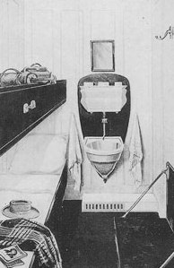 Illustration of a typical 3rd-class cabin on the RMS Titanic